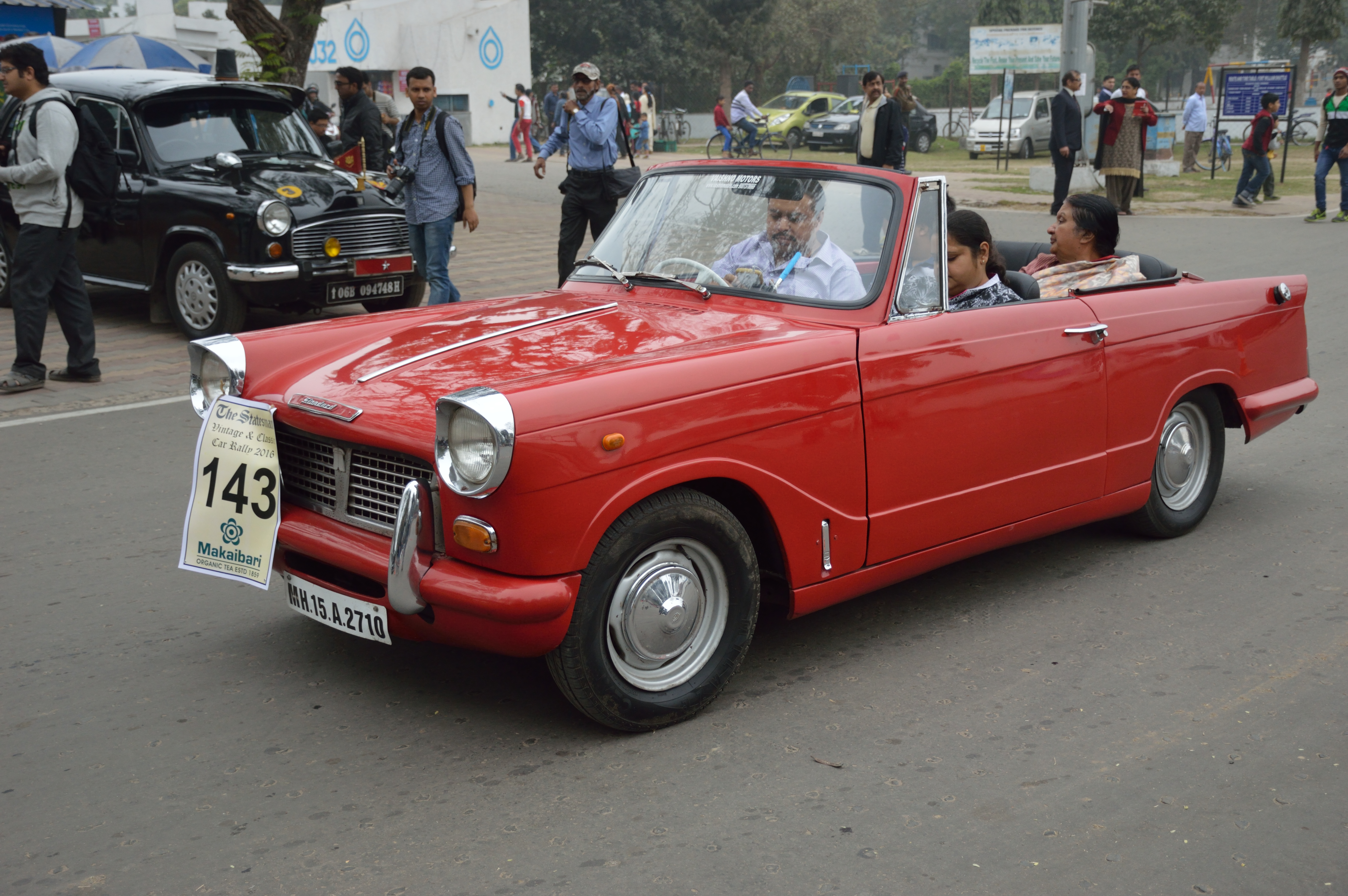 This car was exhibited and took part during ‘The Statesman Vintage & Classic Car Rally 2016’at the Eastern Command Sports Stadium of Fort William, Kolkata.The rally was held at the morning on Sunday, 31 January 2016 at the ECS Stadium, where 196 entrants were registered with cars and two-wheelers manufactured from 1906 to 1971. This one day festival held on the last Sunday of January 2016 in Kolkata since 1968 with full of period costume and cultural period pieces. This car is owned by Vaishno Motors and driven by Manav Kejriwal.